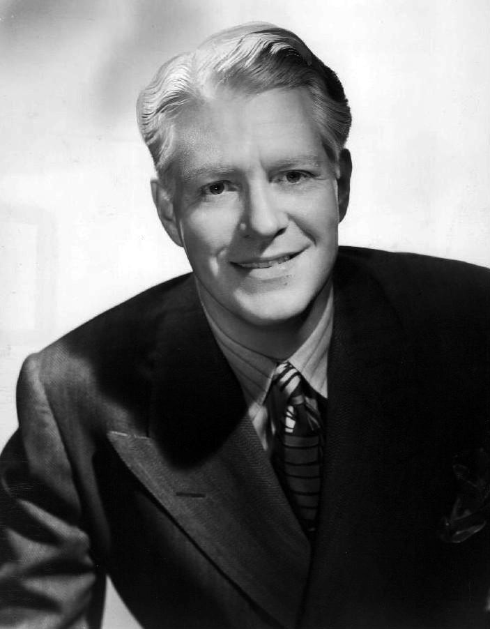 Publicity photo of actor-singer Nelson Eddy.